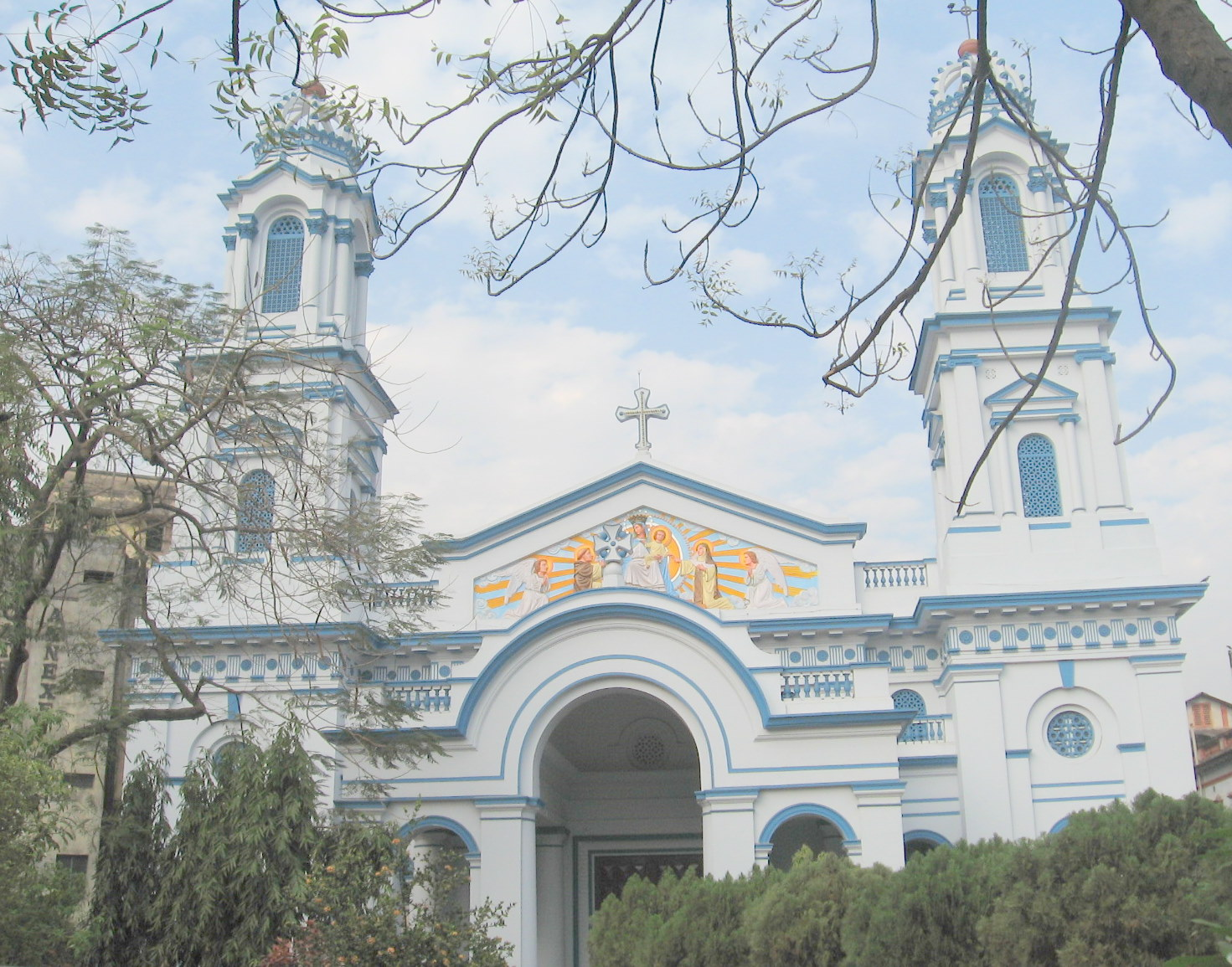 Kolkata, Catholic Cathedral of the Holy Rosary